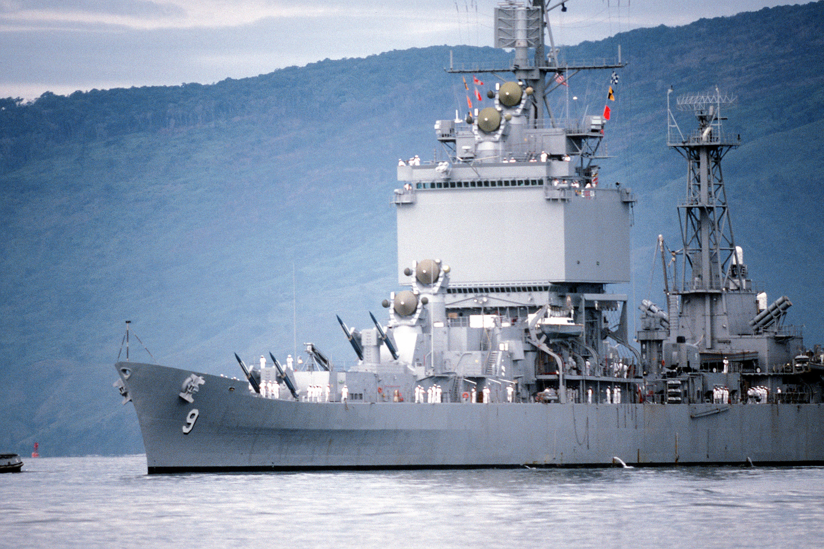 A port bow view of the nuclear-powered guided missile cruiser USS LONG BEACH (CGN-9) as the ship enters port. Location: NAVAL STATION, SUBIC BAY, LUZON PHILIPPINES (PHL)